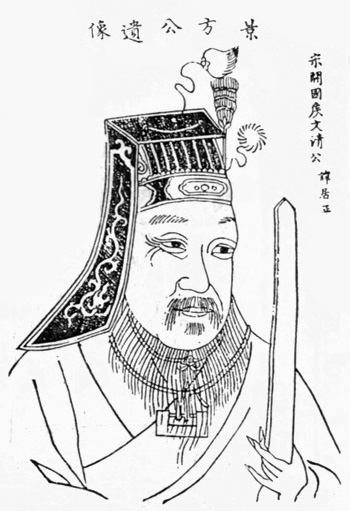 A depiction of Xue Juzheng, prime minister of the Song dynasty